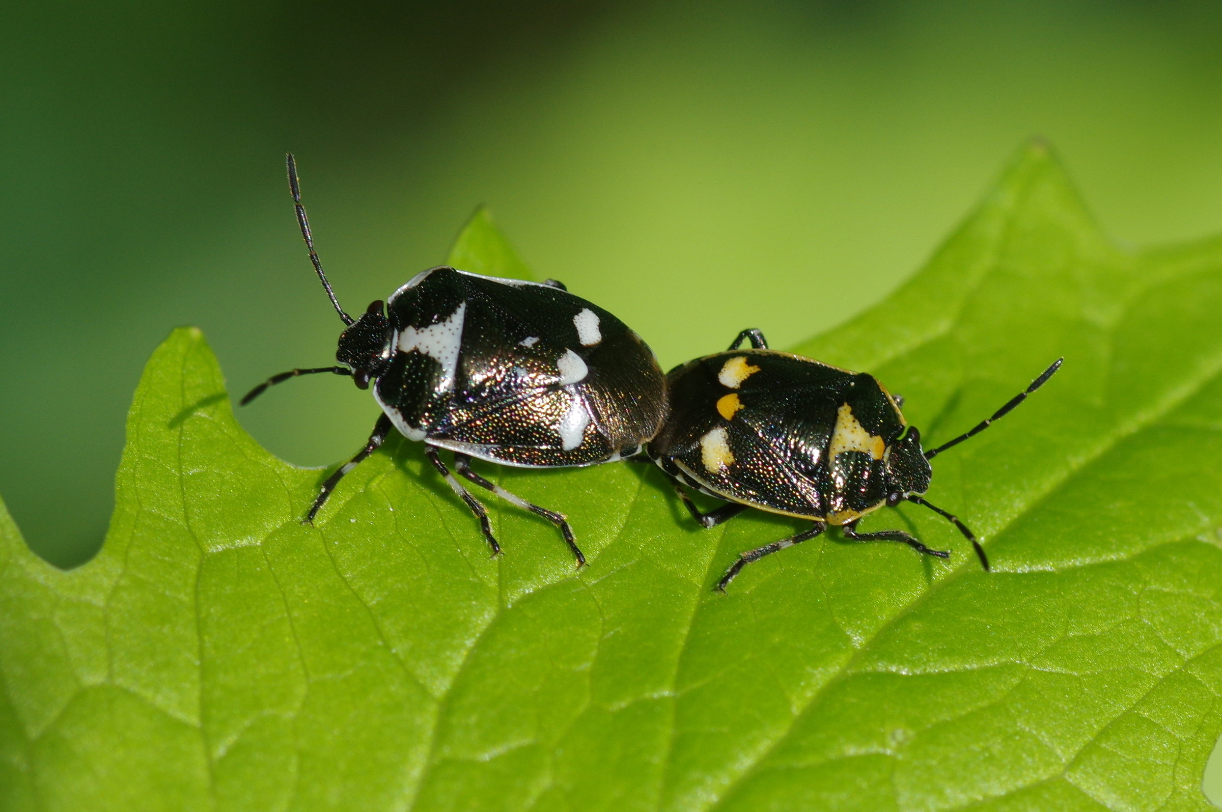 Eurydema oleraceum (cop.)